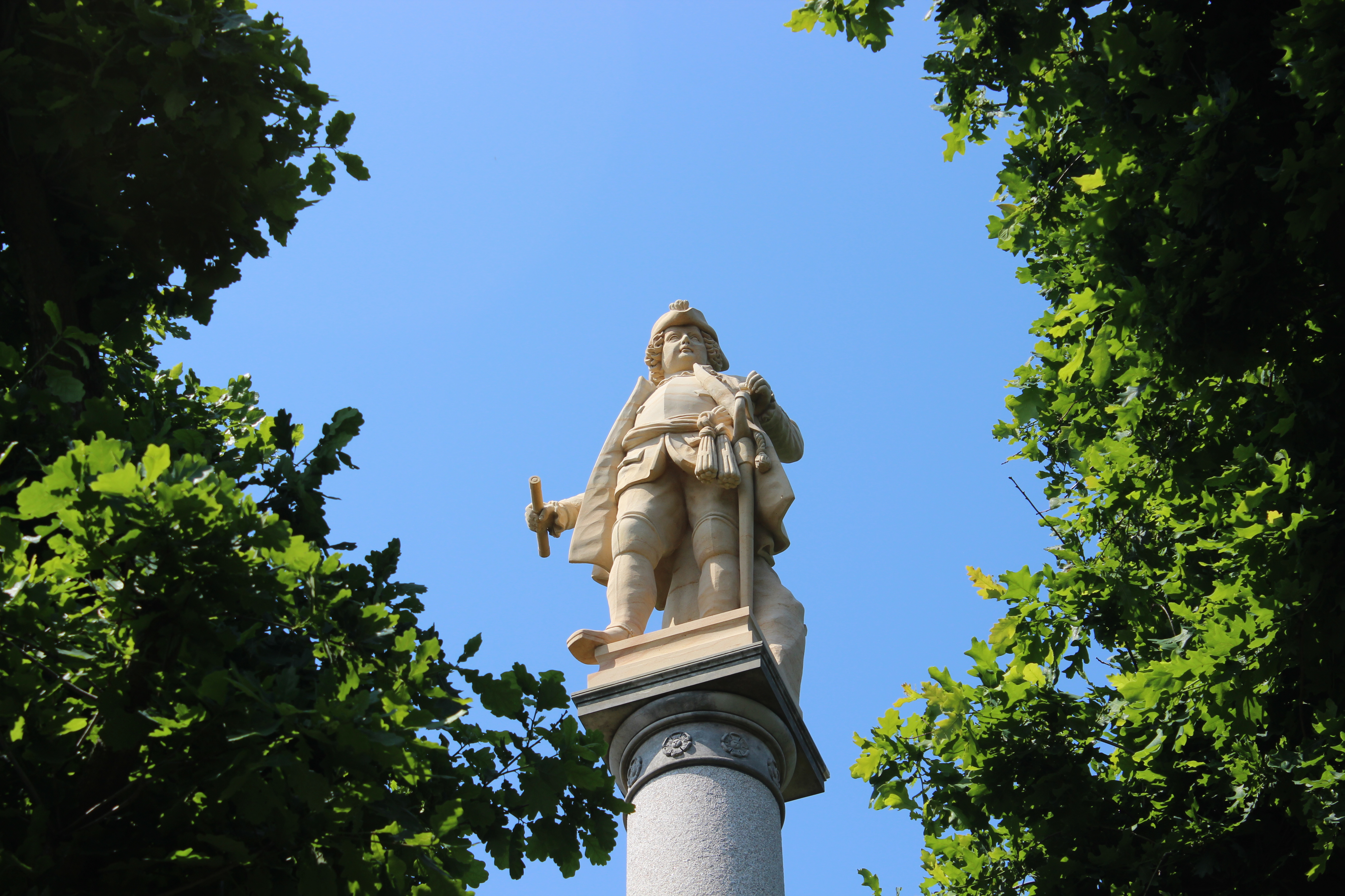 Column with a statue of Frederick William I near Groß Stresow.